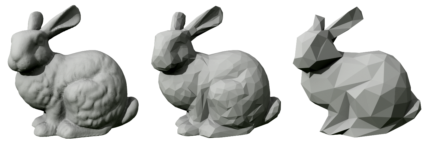 Quadric error metric simplification applied to the Stanford bunny